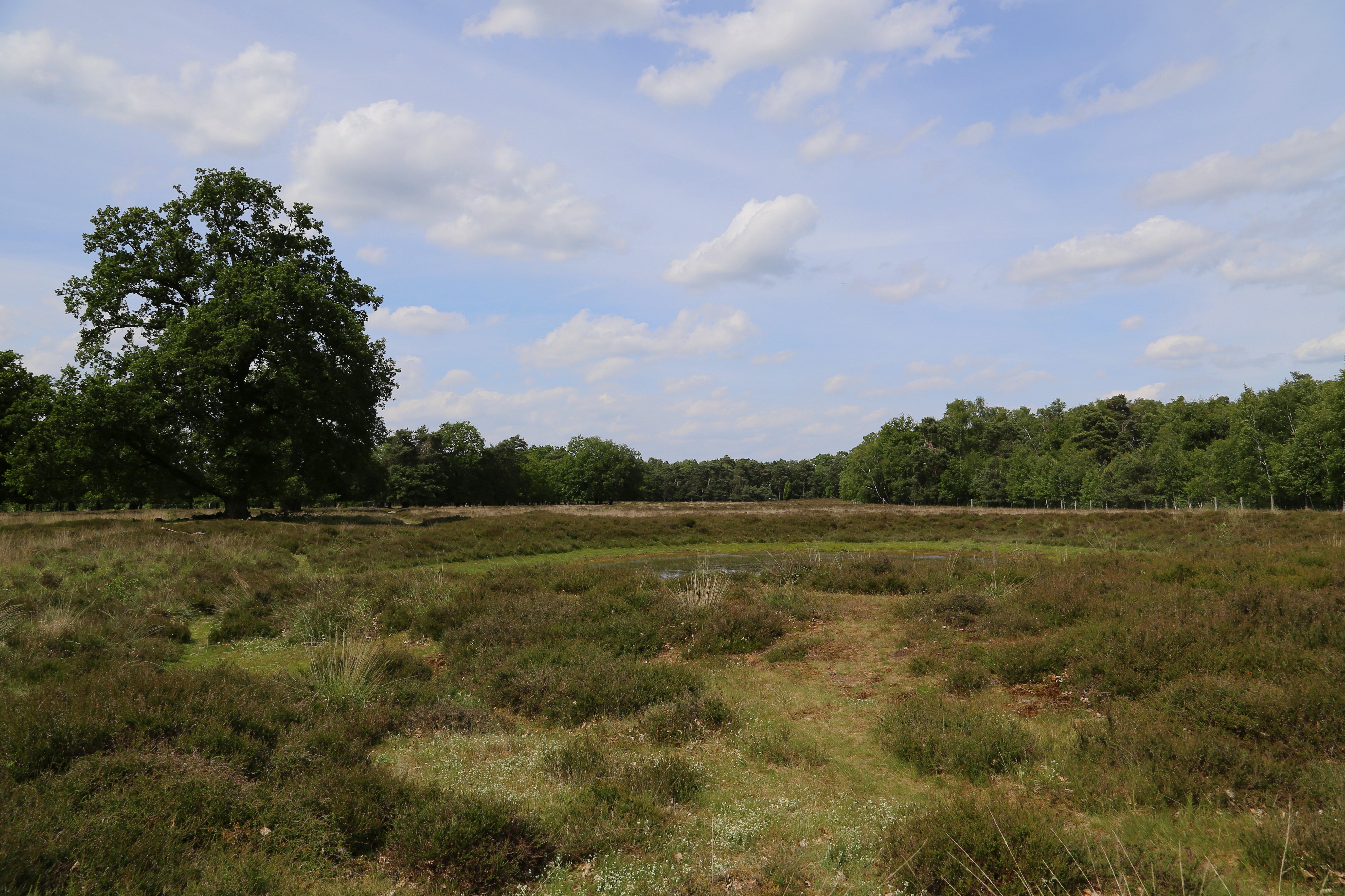 Heathland in the nature reserve „Heiliges Meer-Heupen“ near Lake Großes Heiliges Meer [Great Holy Sea] in Hopsten-Ägypten, Kreis Steinfurt, North Rhine-Westphalia, Germany.